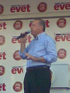 Recep Tayyip Erdogan in Diyarbakir, Turkey.